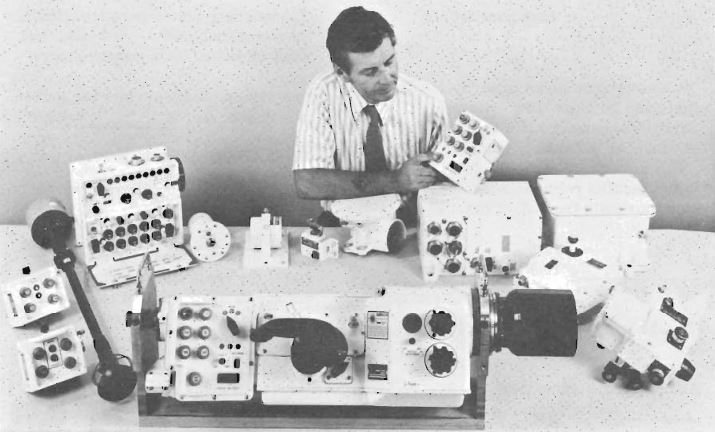 M60A1 main battle tank laser range finder and ballistic computer fire control system built by Hughes Aircraft Company. In the fore ground is the laser transmitter/receiver and commander’s control panel. In background are computer components and sensors. The engineer holds gunner’s laser control unit.